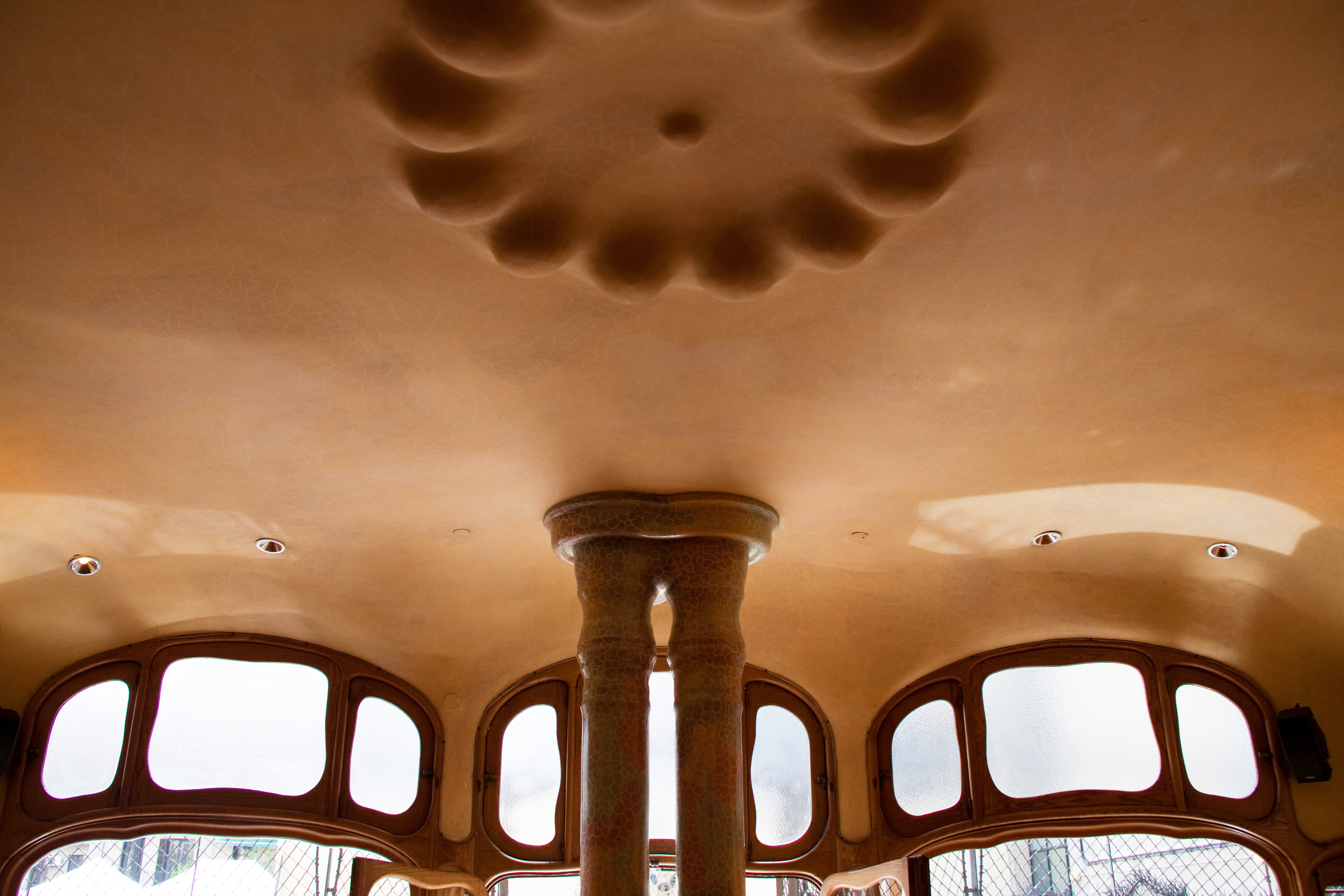 Casa Batllo Courtyard Room